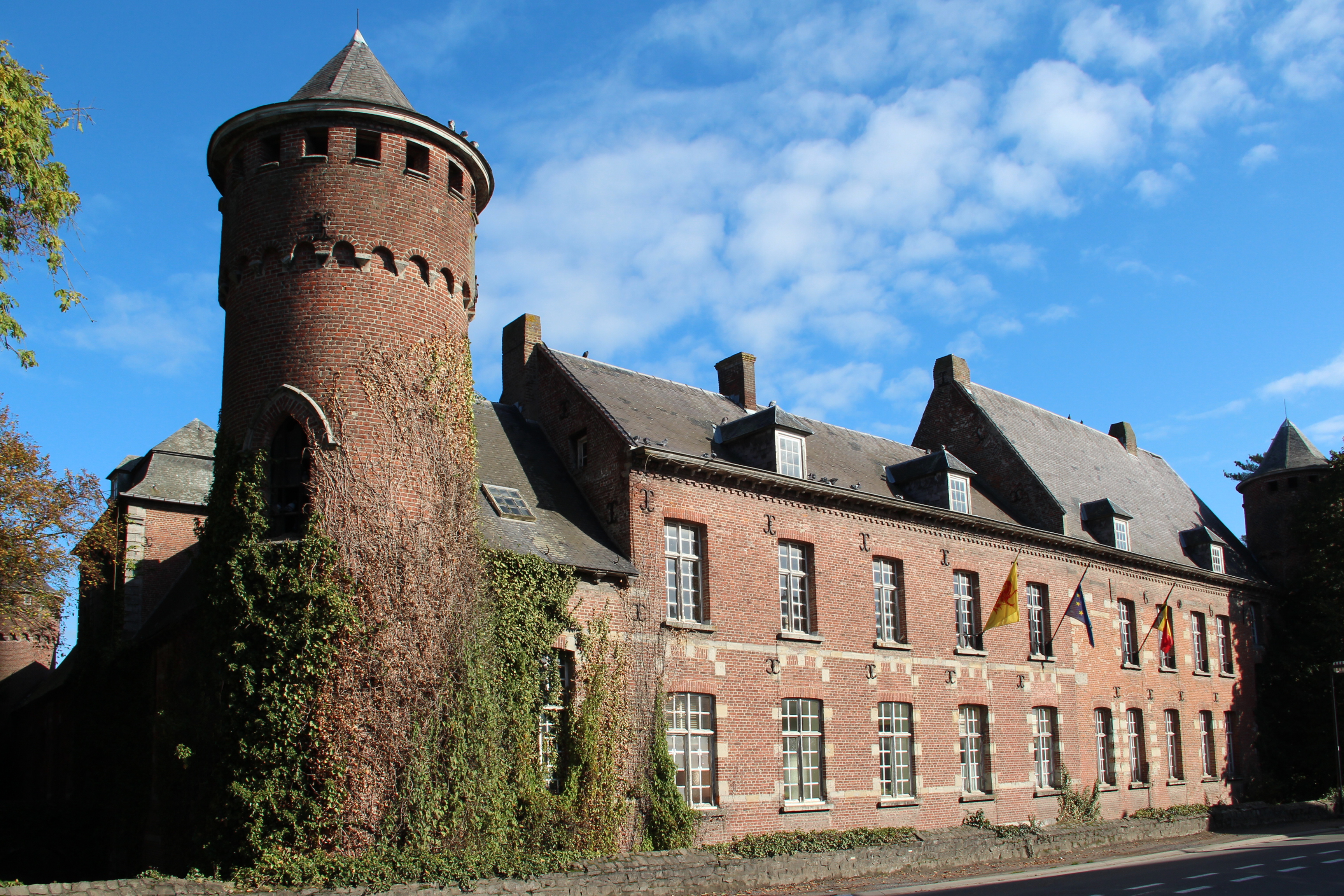 Templeuve| (Belgium), the Formanoir de la Cazerie castle (XVIth century)